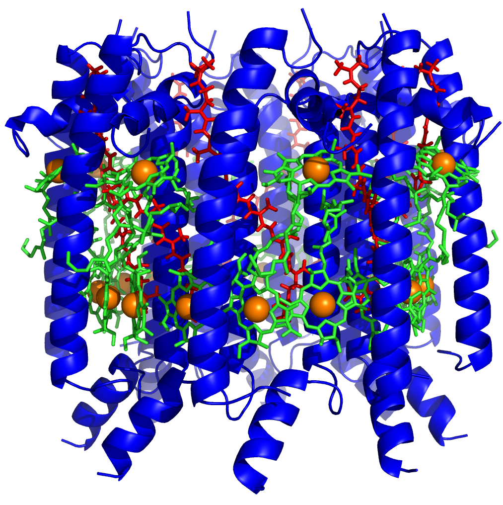 The assembled complex of octameric LH2 from Rhodospirillum molischianum, drawn from PDB entry 1LGH. (Koepke J et al (1996) Structure 4 581-597